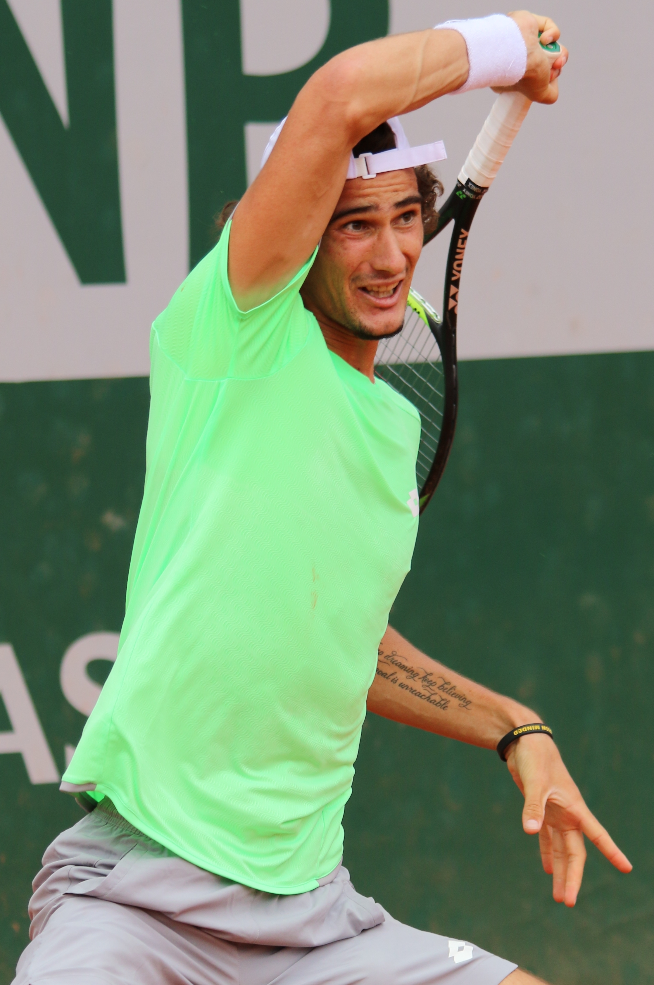 Harris RG19 (52)